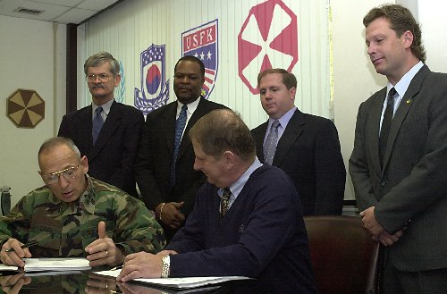 Dennis G. Bue (seated right), president of Local 1363 of the National Federation of Federal Employees (NFFE), signing a labor-management agreement with Lt. Gen. Daniel R. Zanini (seated left), Commander, U.S. 8th Army, on October 31, 2002. Four other unidentified NFFE officials (standing) in background.